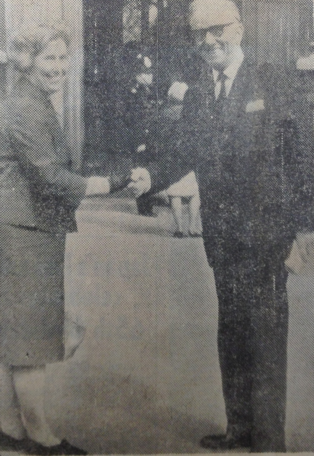 Elsie Elliott meeting with John Rankin during her visit in London.